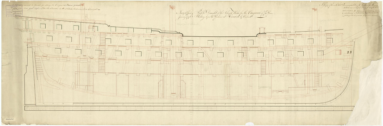 Plan showing the inboard profile for Conqueror (1801), a 74-gun Third Rate, two-decker.